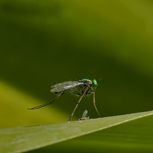 Plenty of these tiny flies in our garden in Bangalore City, India.